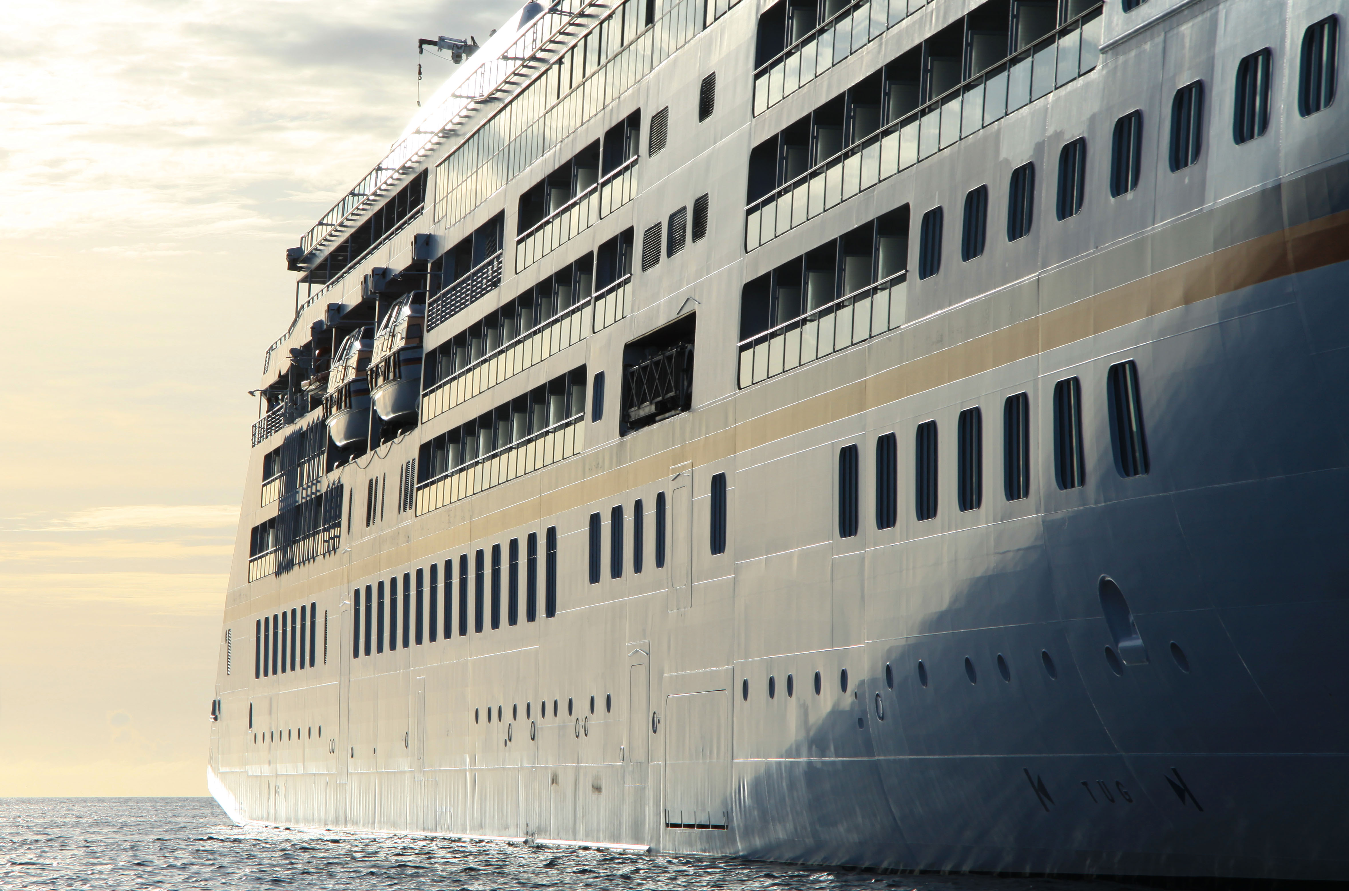 MS Europa in tropical sun set at Palau